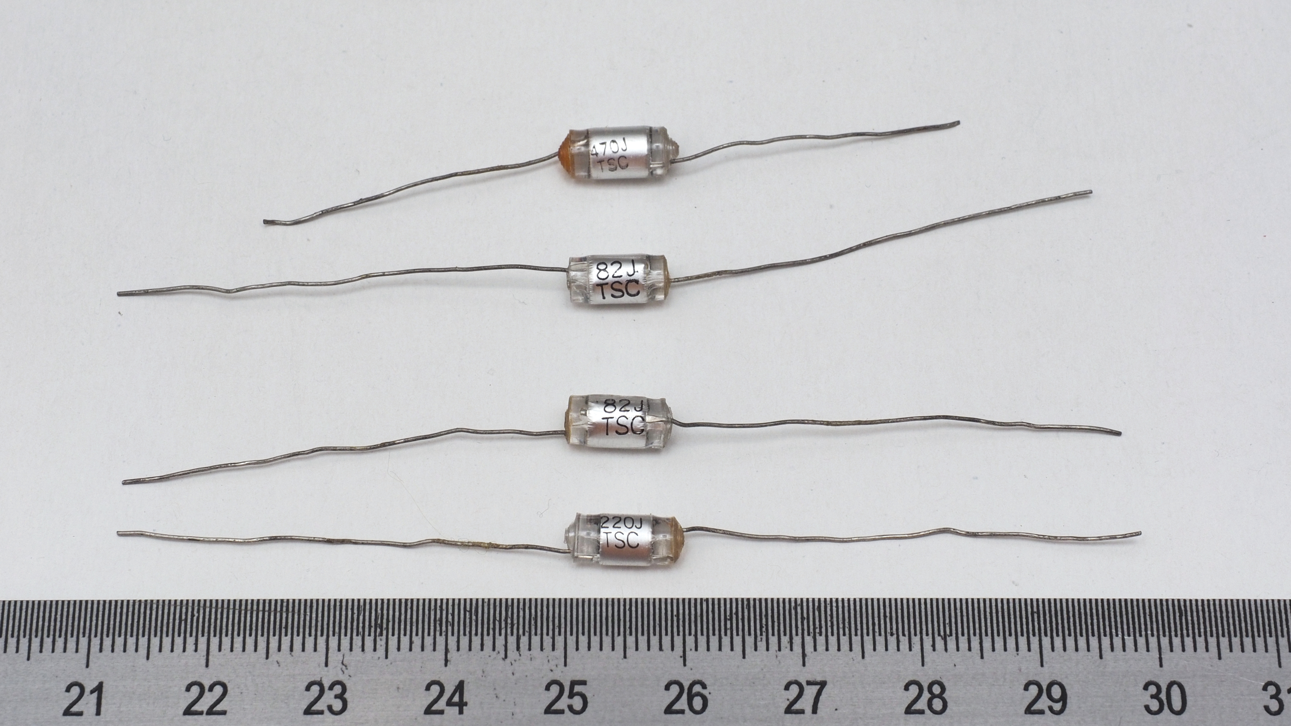 Several wired polystyrene capacitors